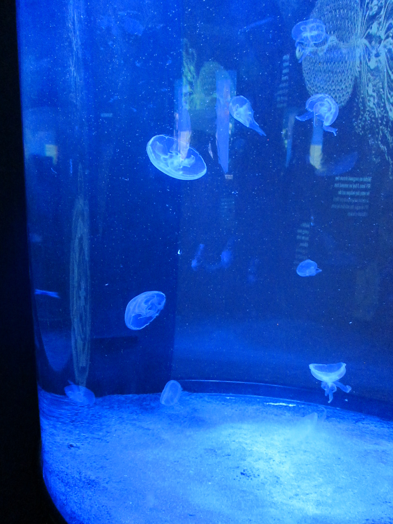 Some of the jellyfish contained in the aquarium of the pavilion of Principality of Monaco, Expo Milano 2015 (Rho Fiera Milano, Italy). The photo was taken on July the 28th in 2015.